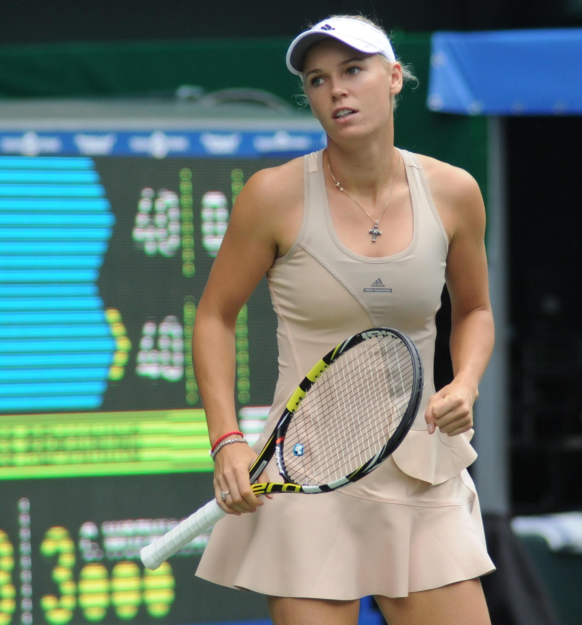 Caroline Wozniacki at the 2014 Toray Pan Pacific Open